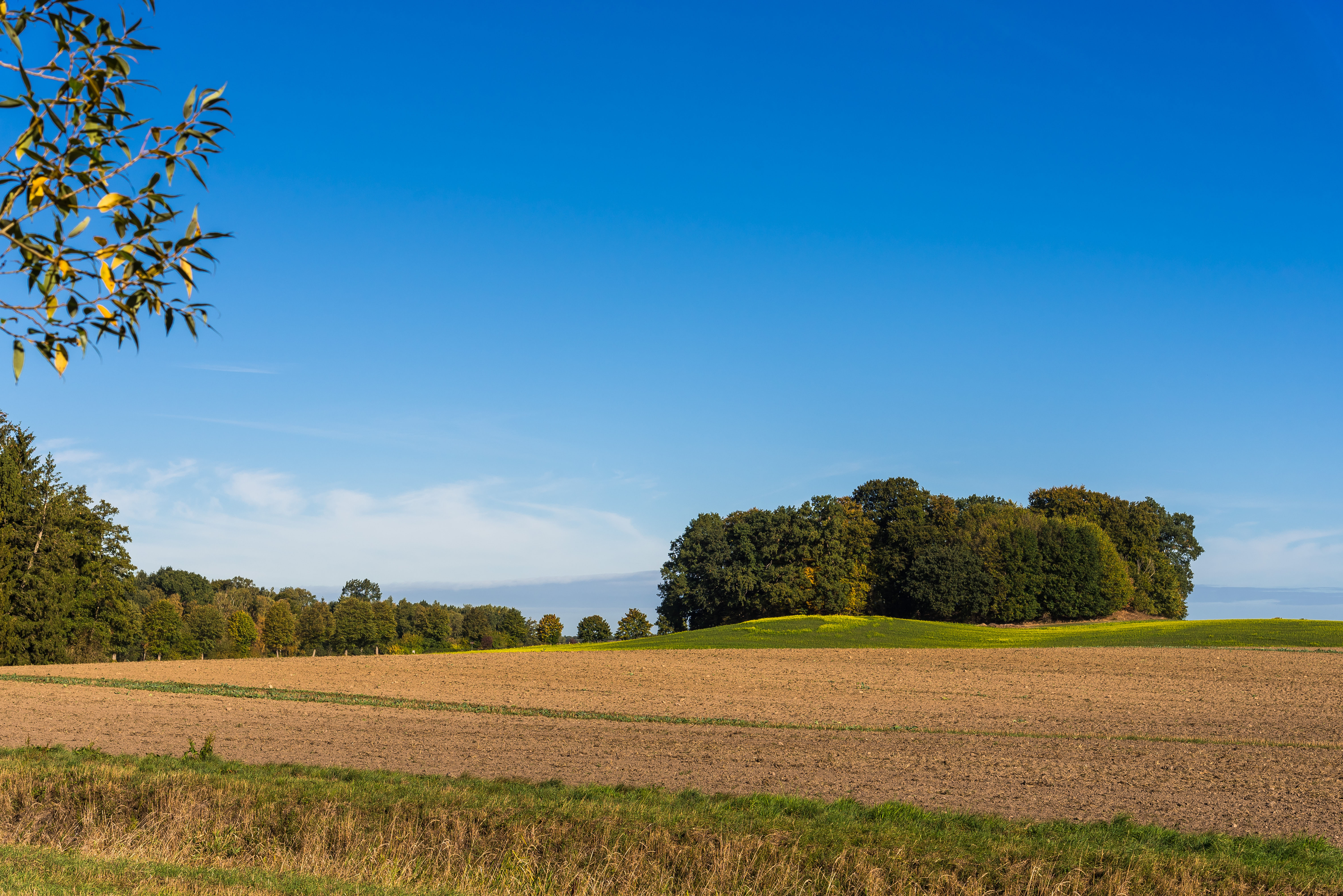 Oldenburger Wall, a Slavic circular rampart in the community of Horst, Herzogtum Lauenburg, Schleswig-Holstein, Germany. These are the remnants of a fortification dating from the 8th century AD, and attributed to the tribe of the Polabians. It is situated on a natural hill, the inner area is a clearing, and on the earthen embankment are trees, forming a conspicuous sight in the landscape. It has an inner diameter of 60 metres.